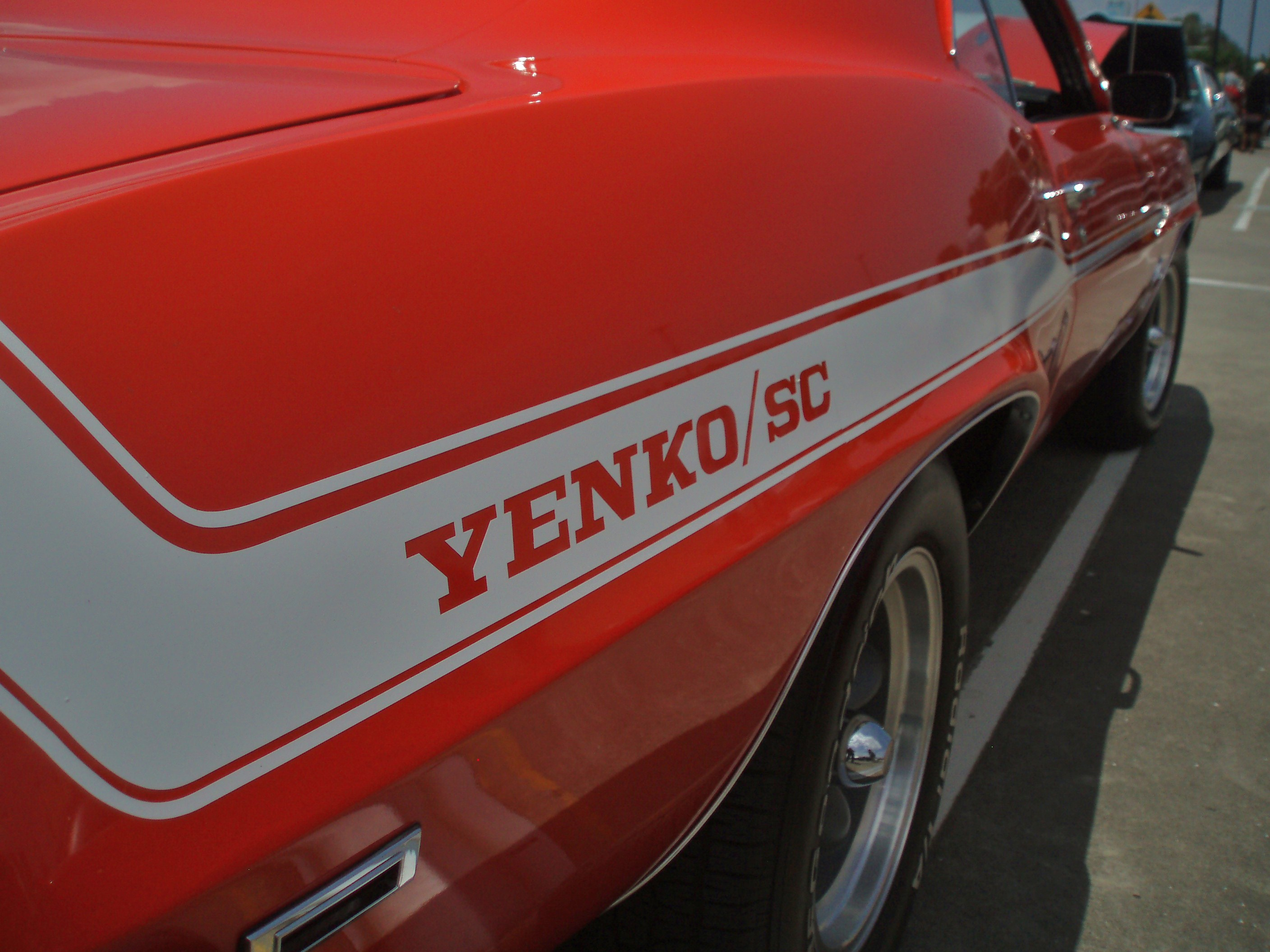 1969 Chevrolet Camaro Yenko coupe rear quarter panel decal. Taken at the 2010 New South Wales All American Day, held at Castle Towers Shopping Centre, Castle Hill, Sydney.